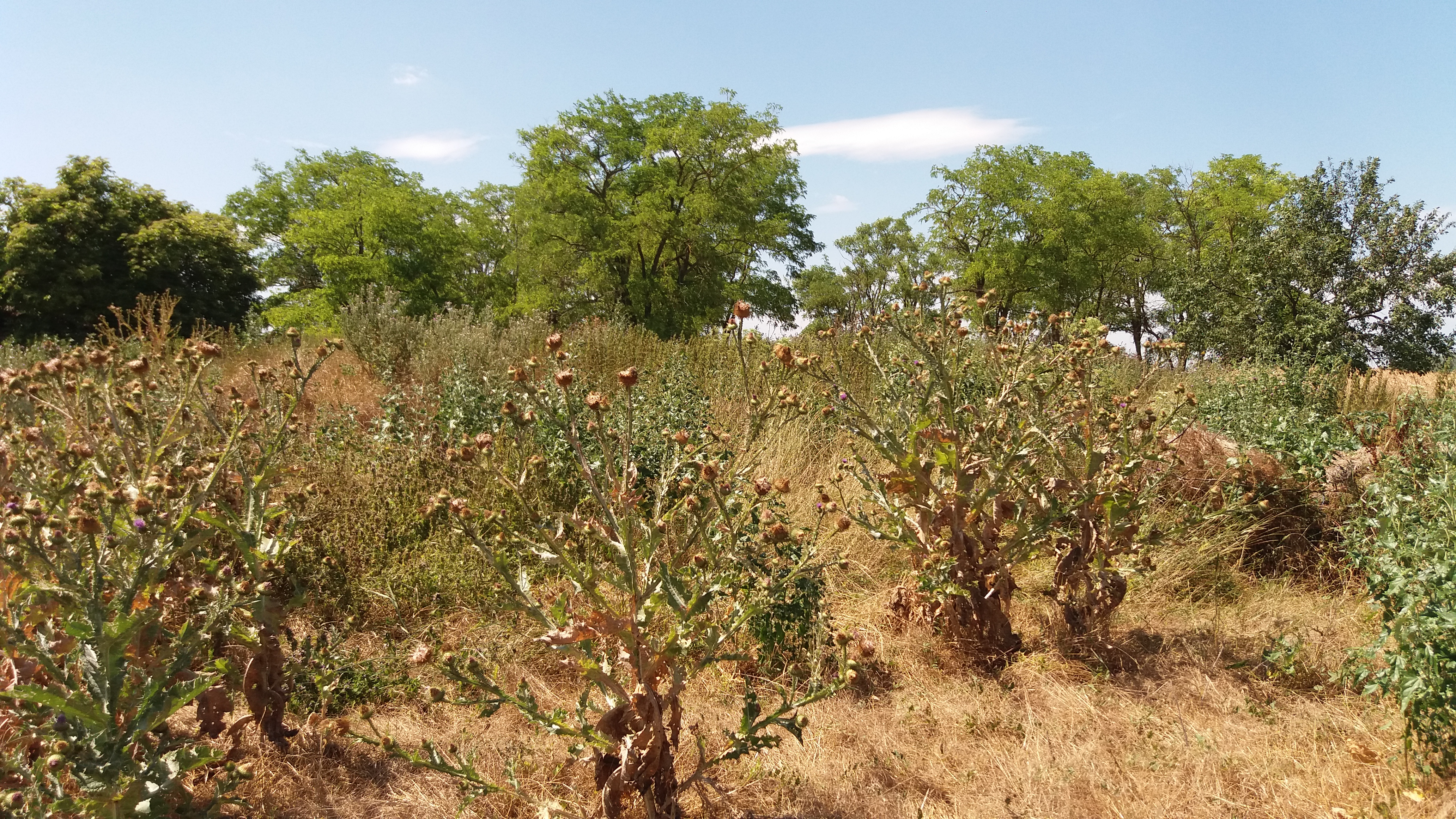 earth mound